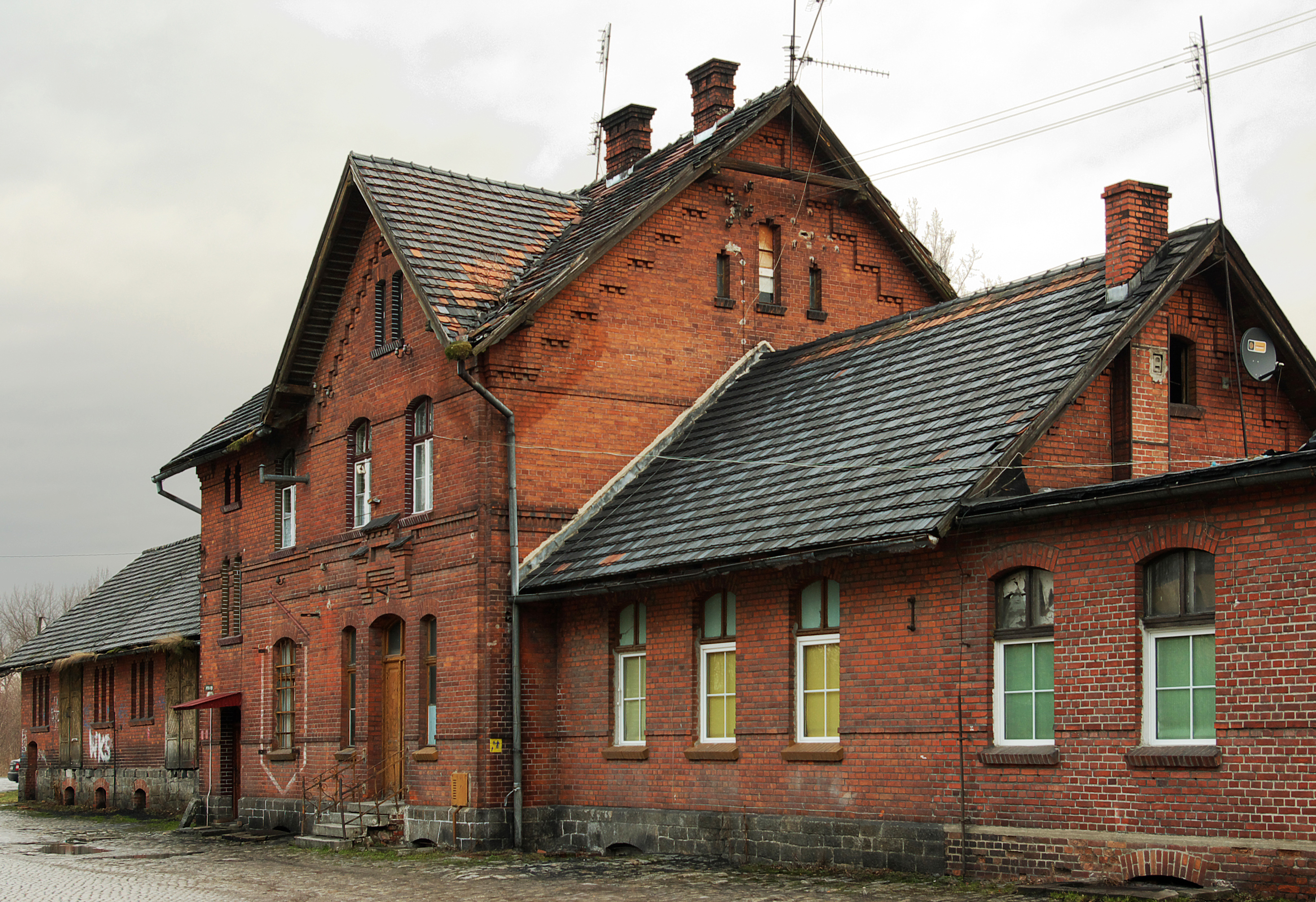 Disused train station in Niemcza, Lower Silesia, Poland. Currently a house.